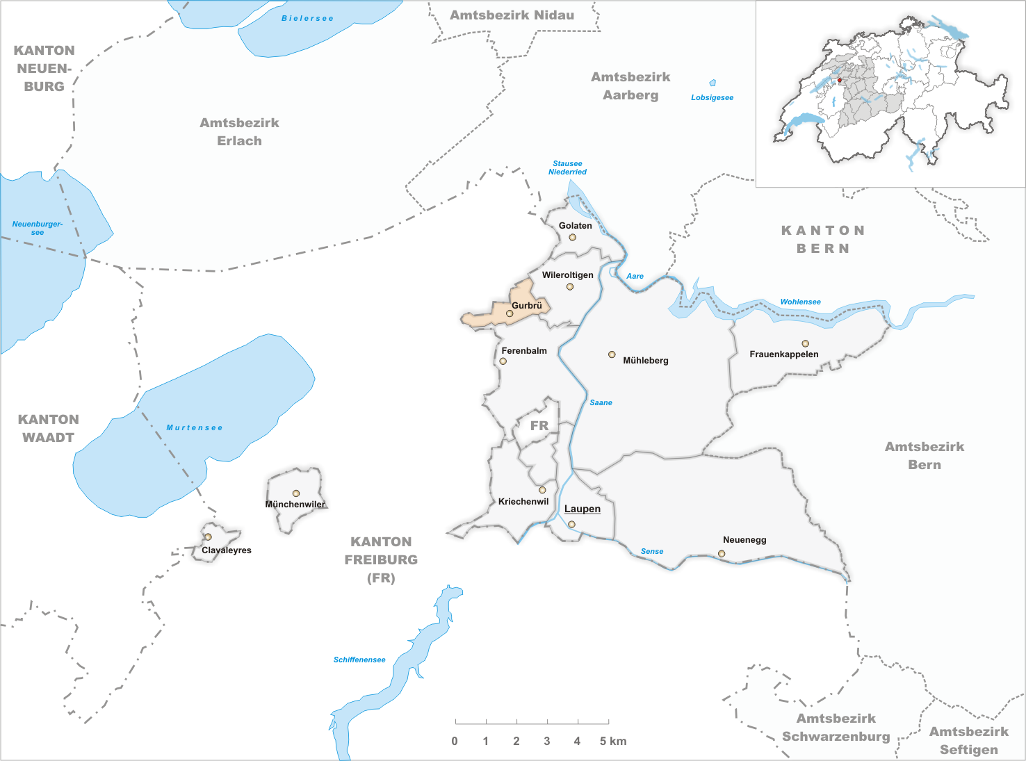 Municipality Gurbrü